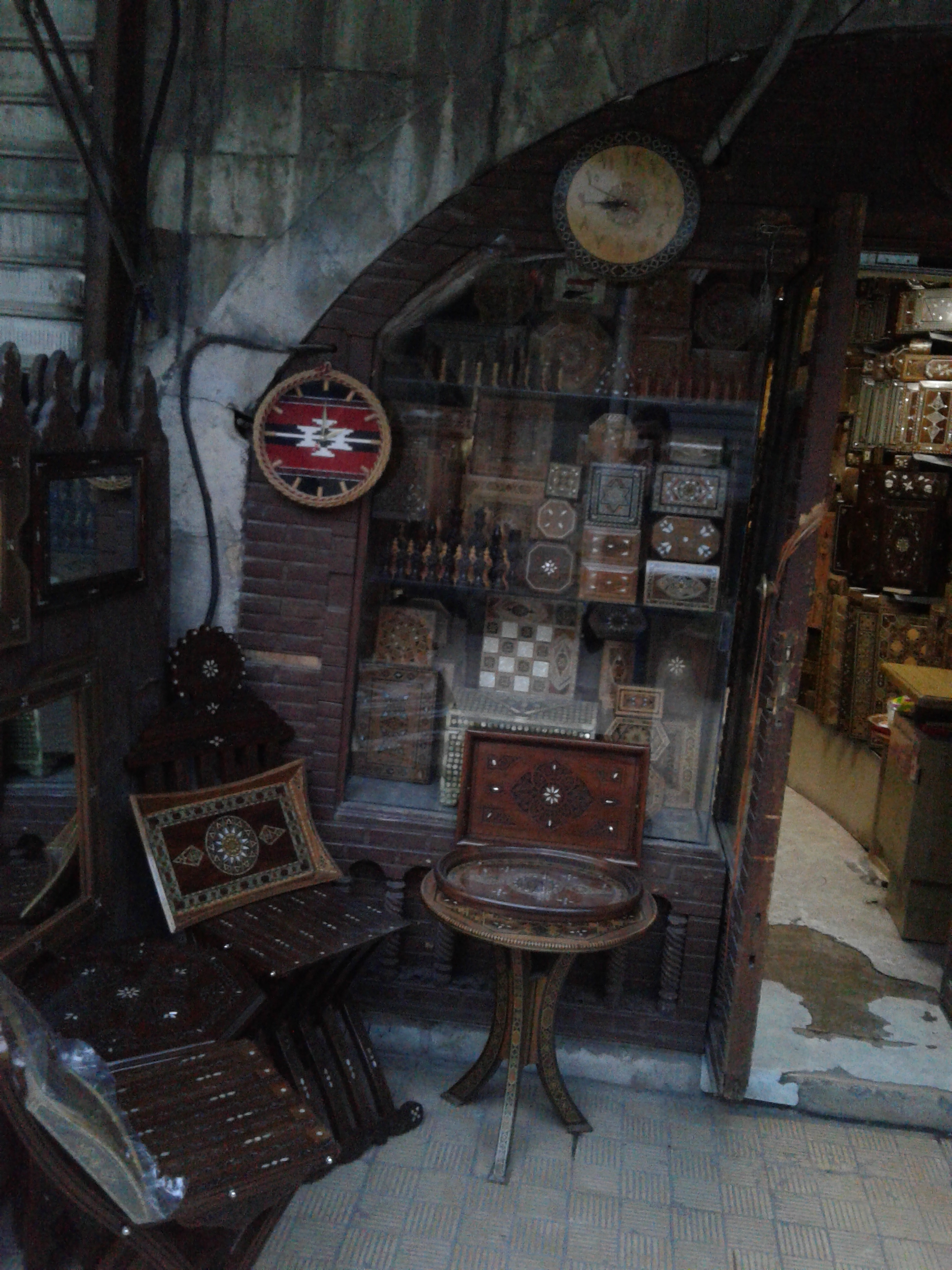 صورة تظهر المصنوعات العجميّة في سوق المهن اليدوية، دمشق.